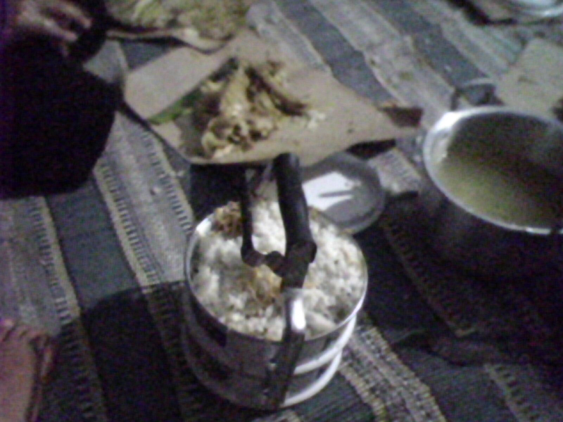 Sega lan iwak Ayam